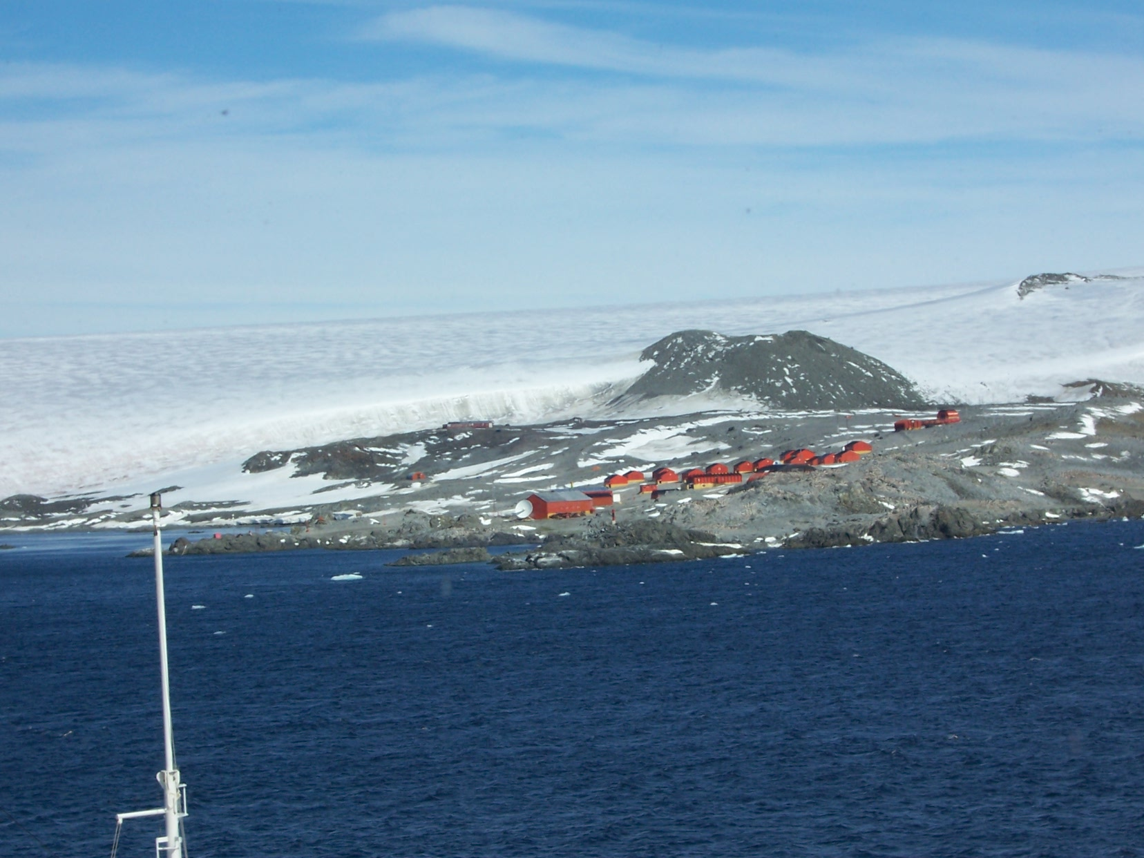 Esperanza Base on December 27, 2004 Description= photograph of Argentine Esperanza Base, Hope Bay, Antarctica Source= taken by Jack Child in Antarctica Date= 27 December 2004 Author= Jack Child Permission= self - released into public domain by the creator Tag